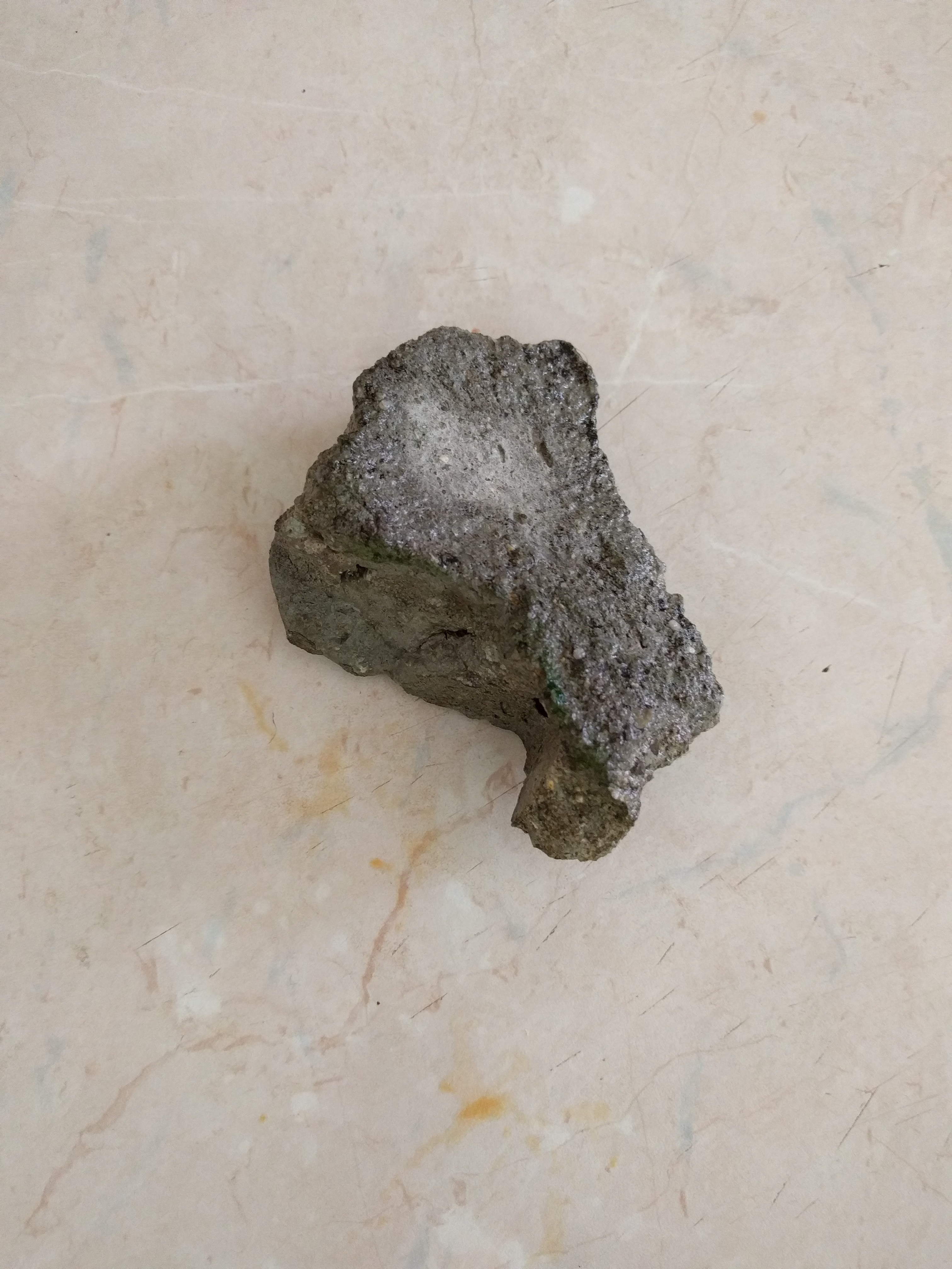 This is a stone from Roman Thermae (Varna)